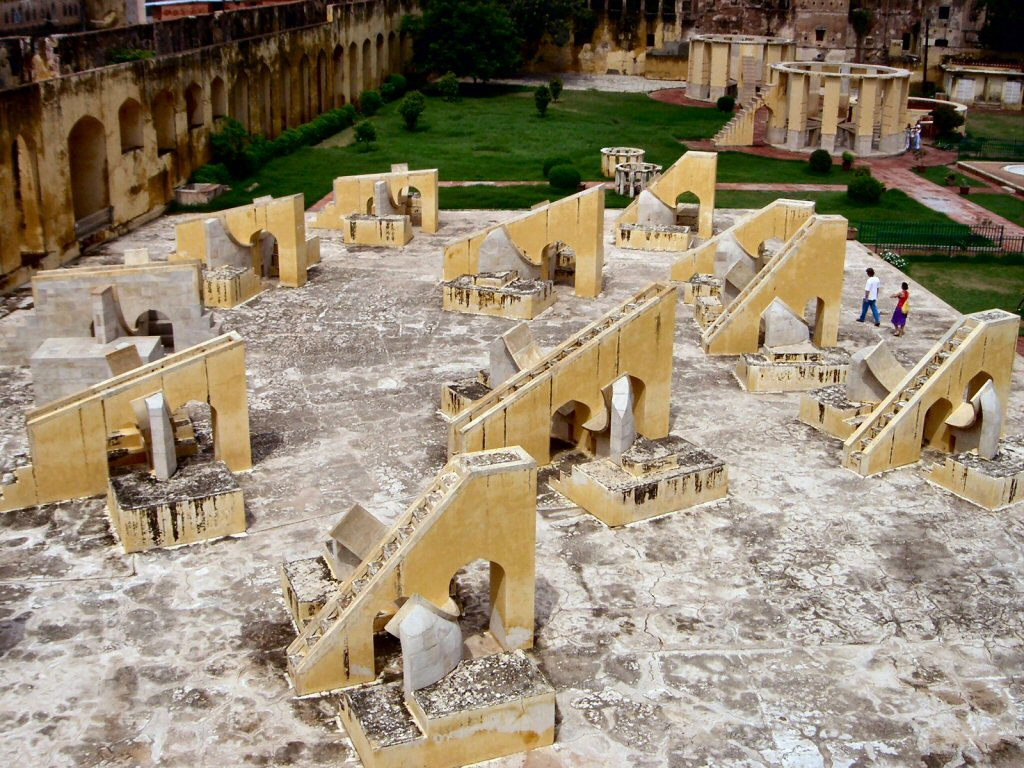 A view over the constellation-pointers at the Jantar Mantar observatory